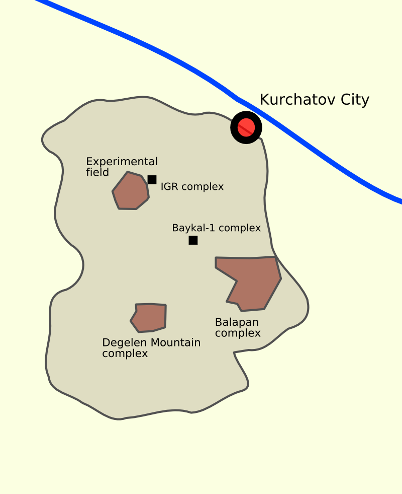 A closeup view of the various subcomplexes at the Semipalatinsk Test Site.